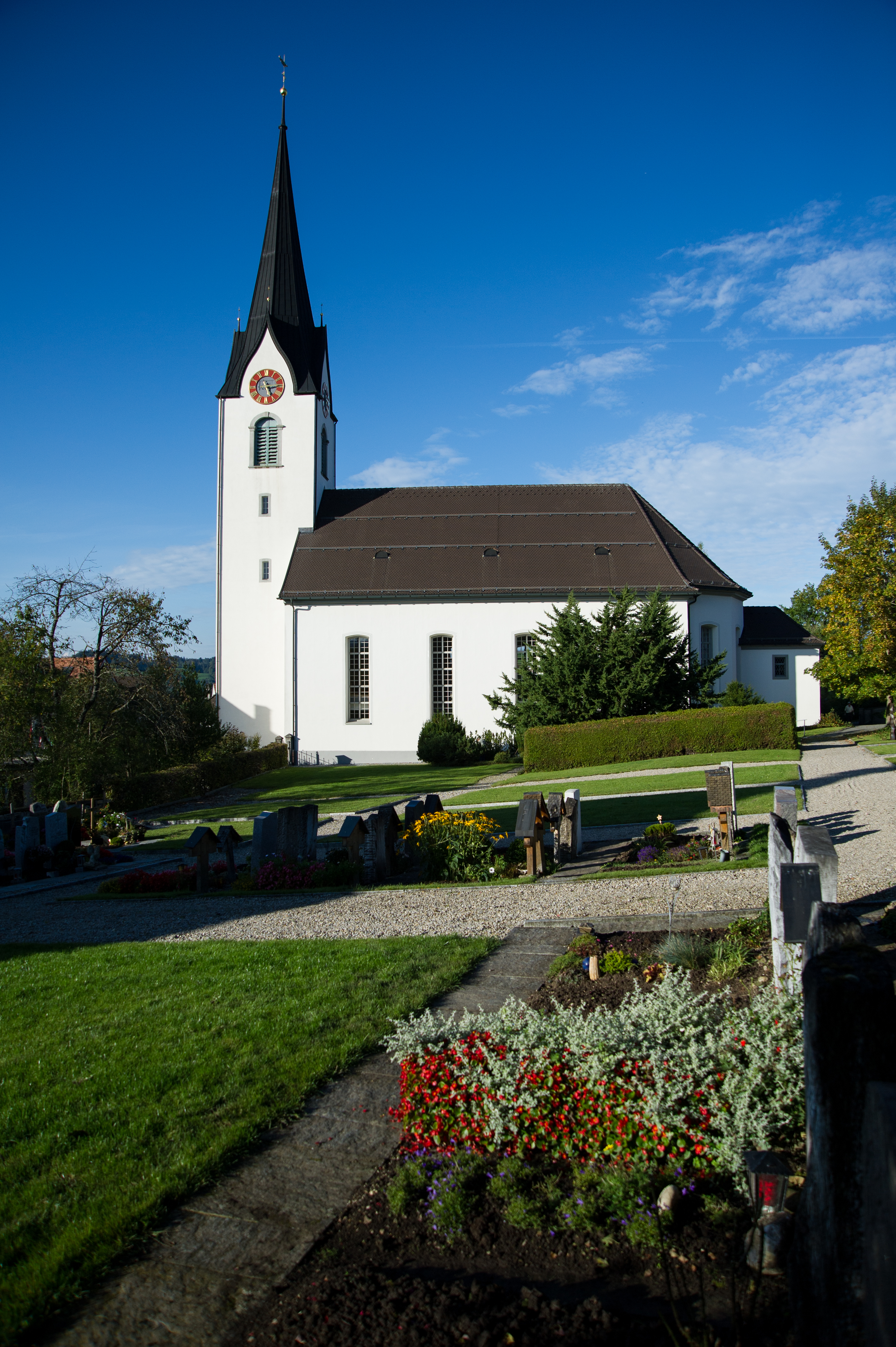 Paritätische Kirche St. Jakobus